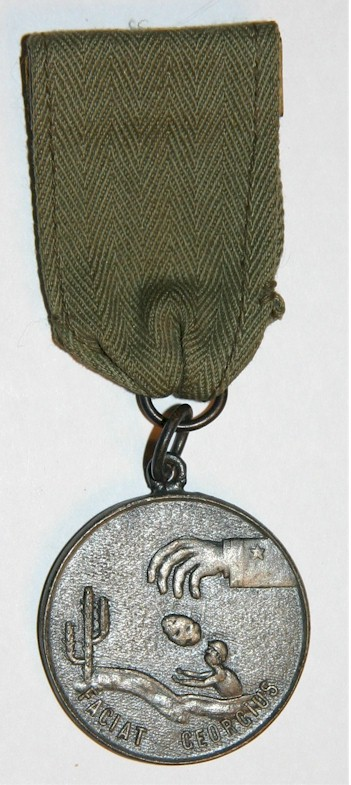 Obverse of the 1st MARDIV's "Faciat Georgius" Commemorative Medal